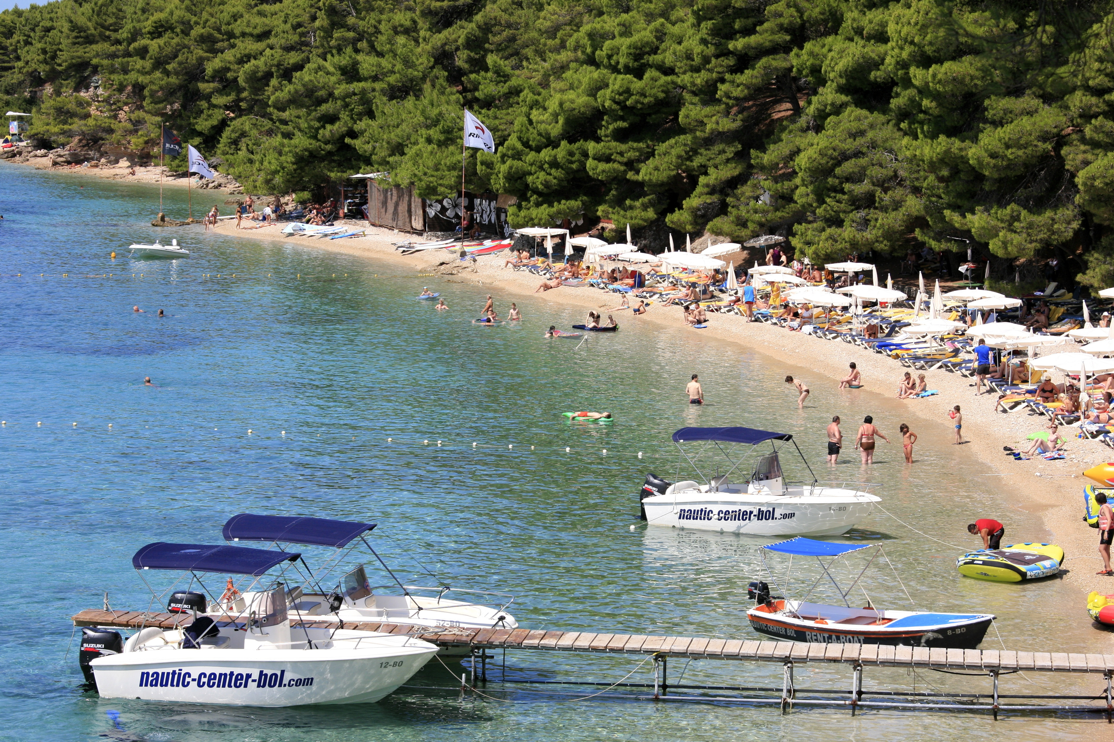 Bol, Croatia